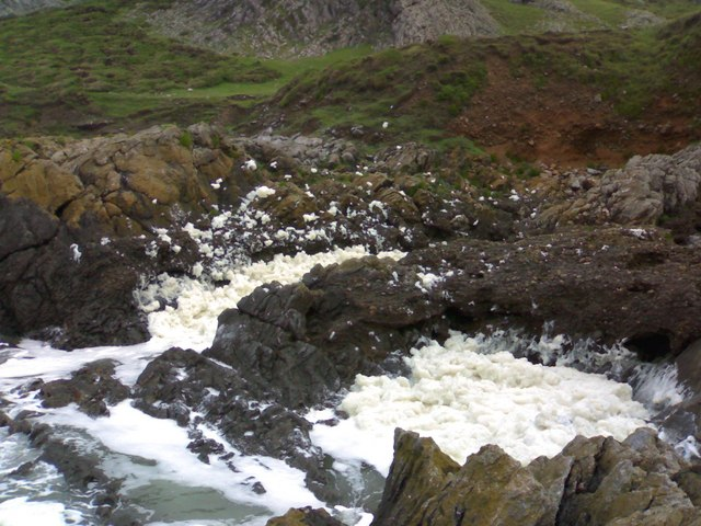 Foaming sea With a slight blowing, the foam is being carried over the rocks and inland.